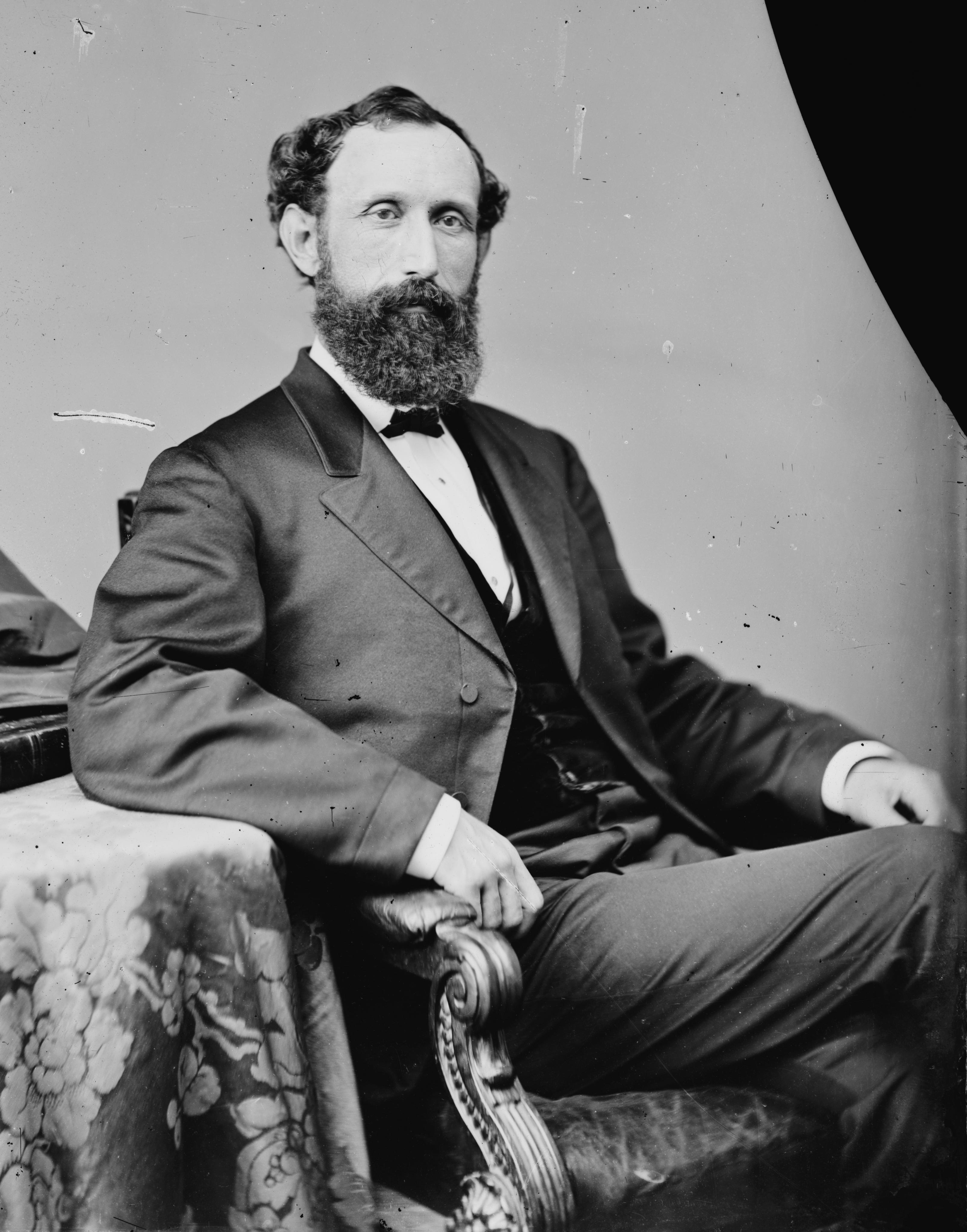 William P. Kellogg. Library of Congress description: "Hon. Wm. Pitt Kellogg of La."